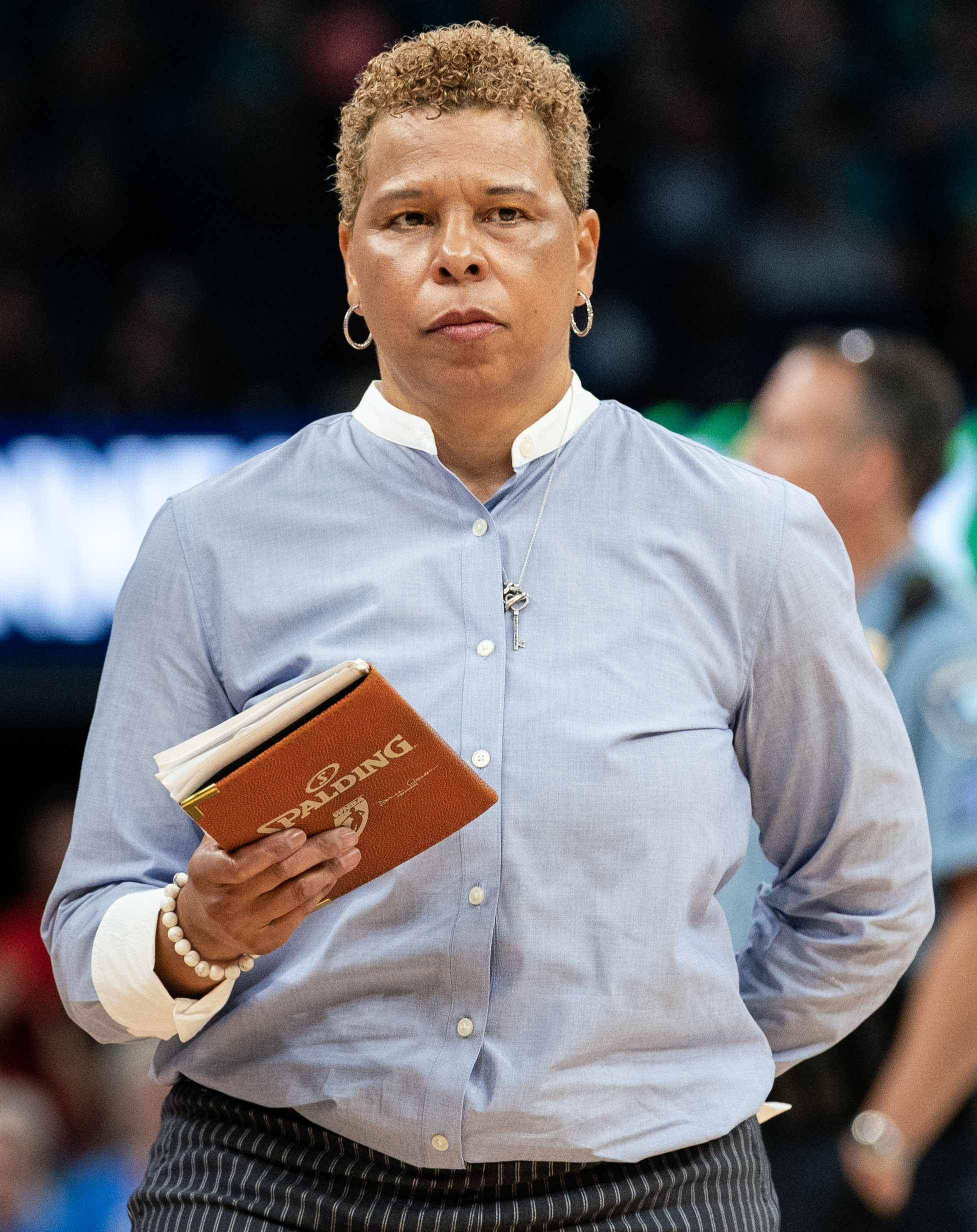 Minnesota Lynx assistant coach Shelley Patterson leaves the court in a game against the Washington Mystics